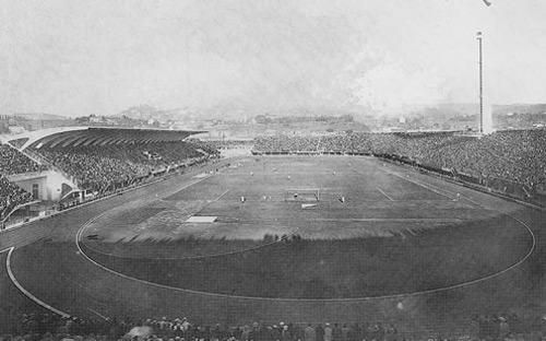 The Stadio Communale Giovanni Berta (nowadays Artemio Franchi), Florence